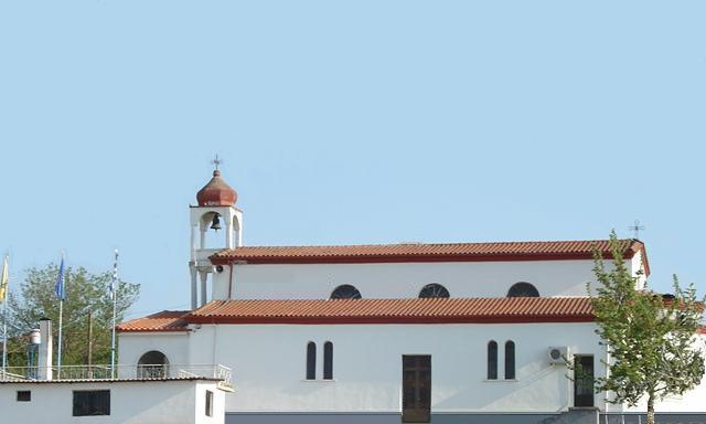 The Greek Orthodox Church Agii Pandes (All Saints) in Loutrochori, Skydra Municipality, Pella Prefecture, Macedonia, Greece.